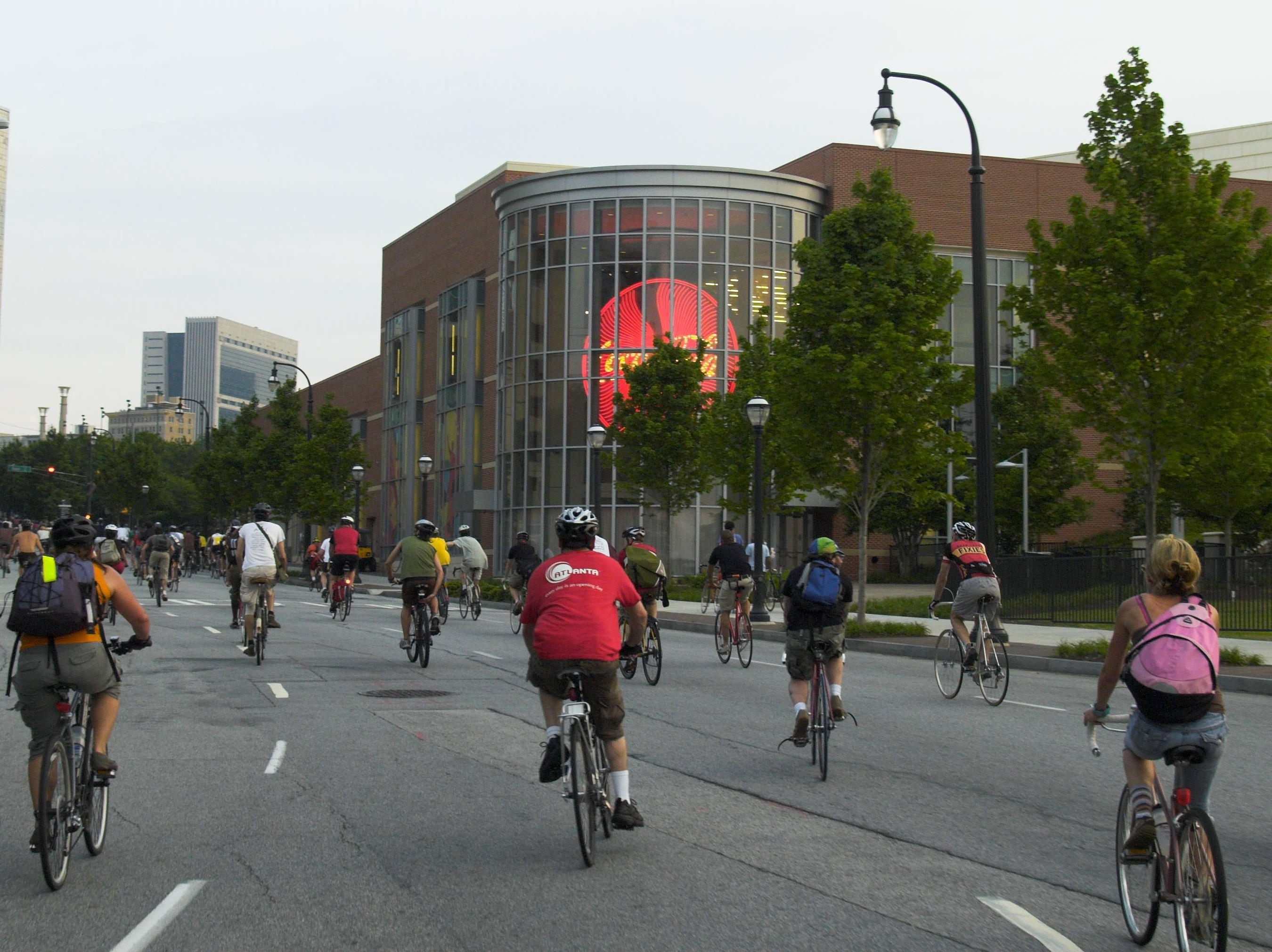 Cycling in ATL